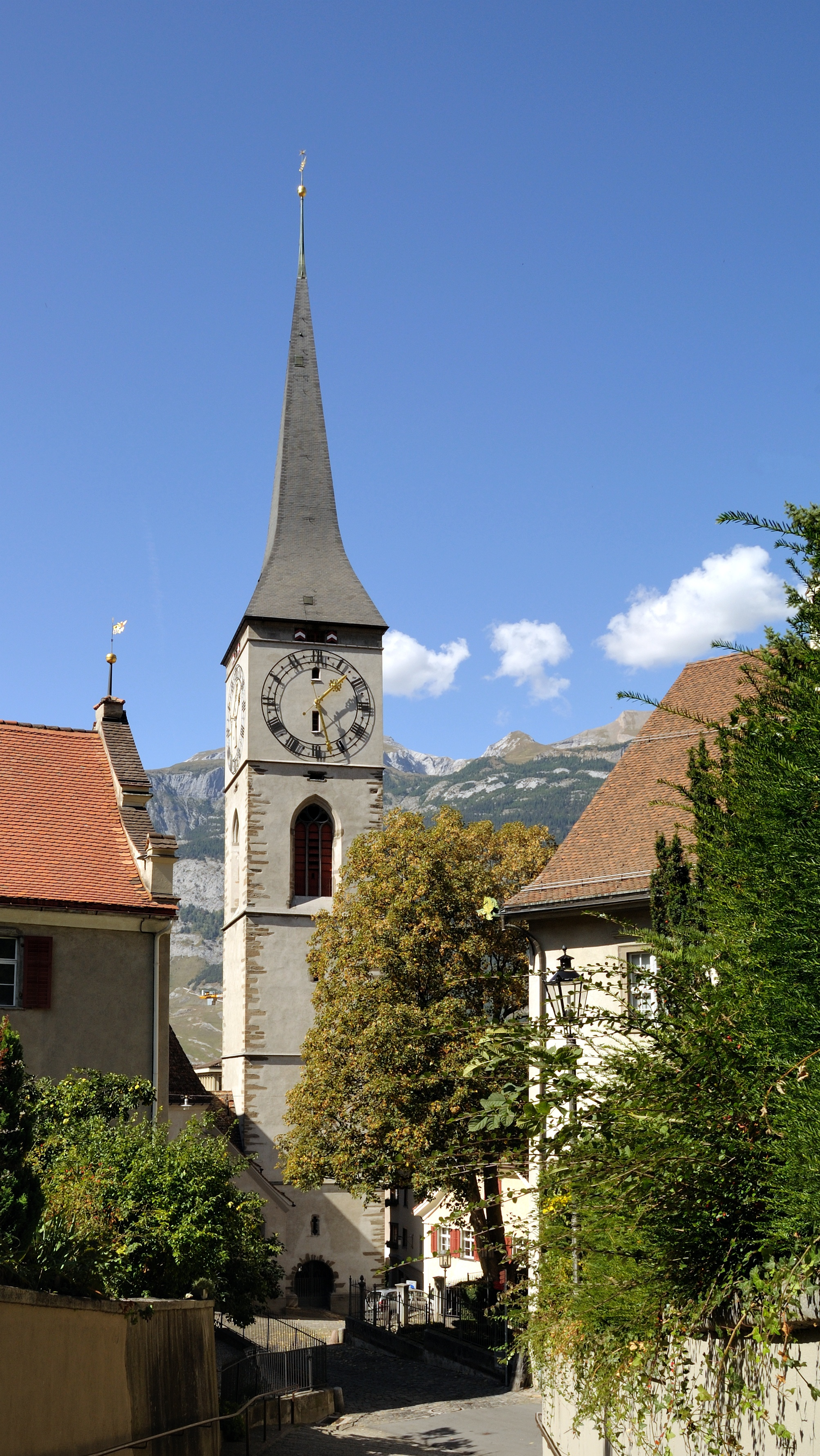 Chur: Saint Martin Church (bell tower)